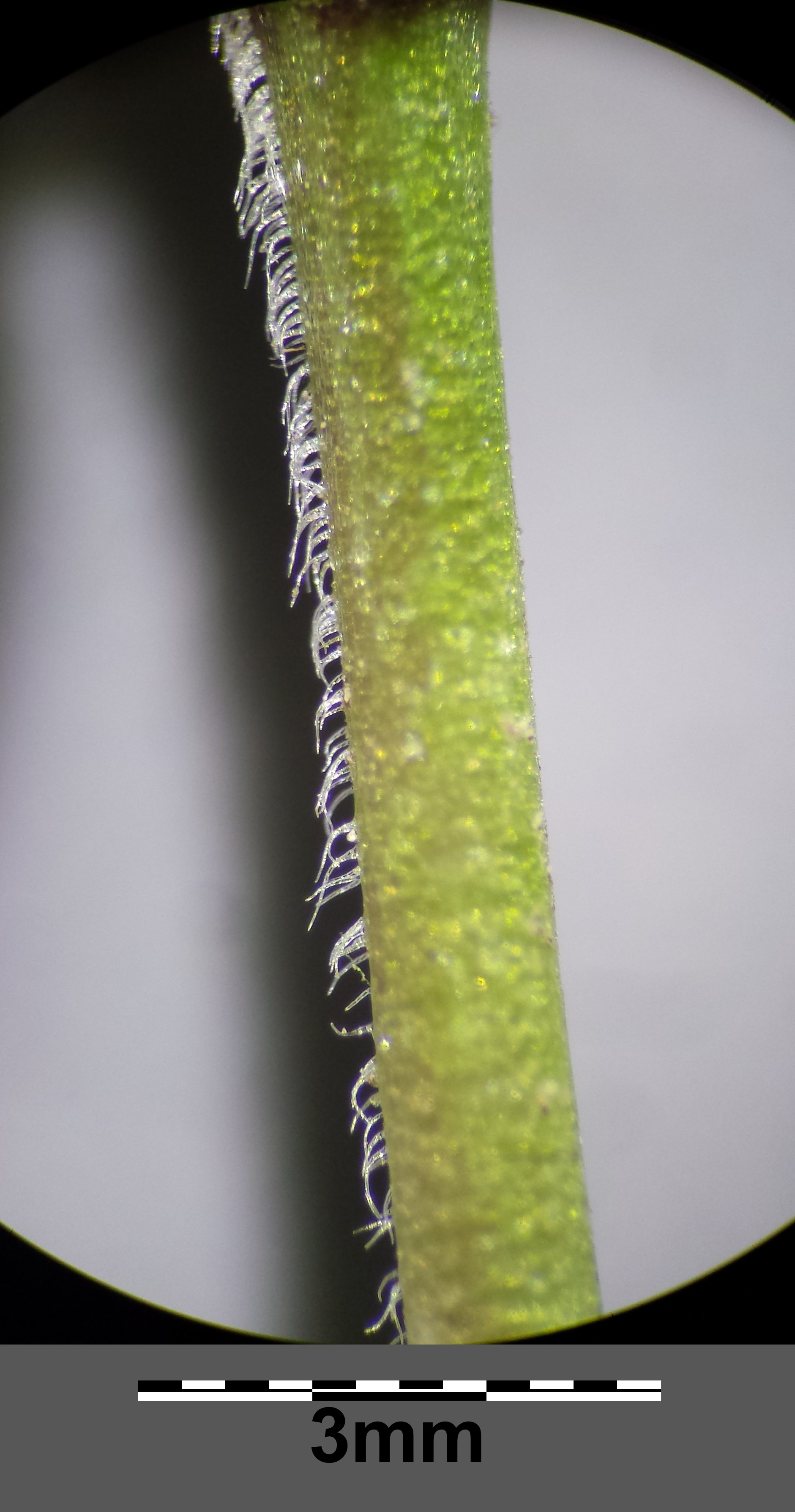 Stem with one line of hairs Taxonym: Stellaria pallida ss Fischer et al. EfÖLS 2008 ISBN 978-3-85474-187-9 Location: Sinawastingasse, Vienna-Floridsdorf - ca. 160 m a.s.l. Habitat: ruderal lawn